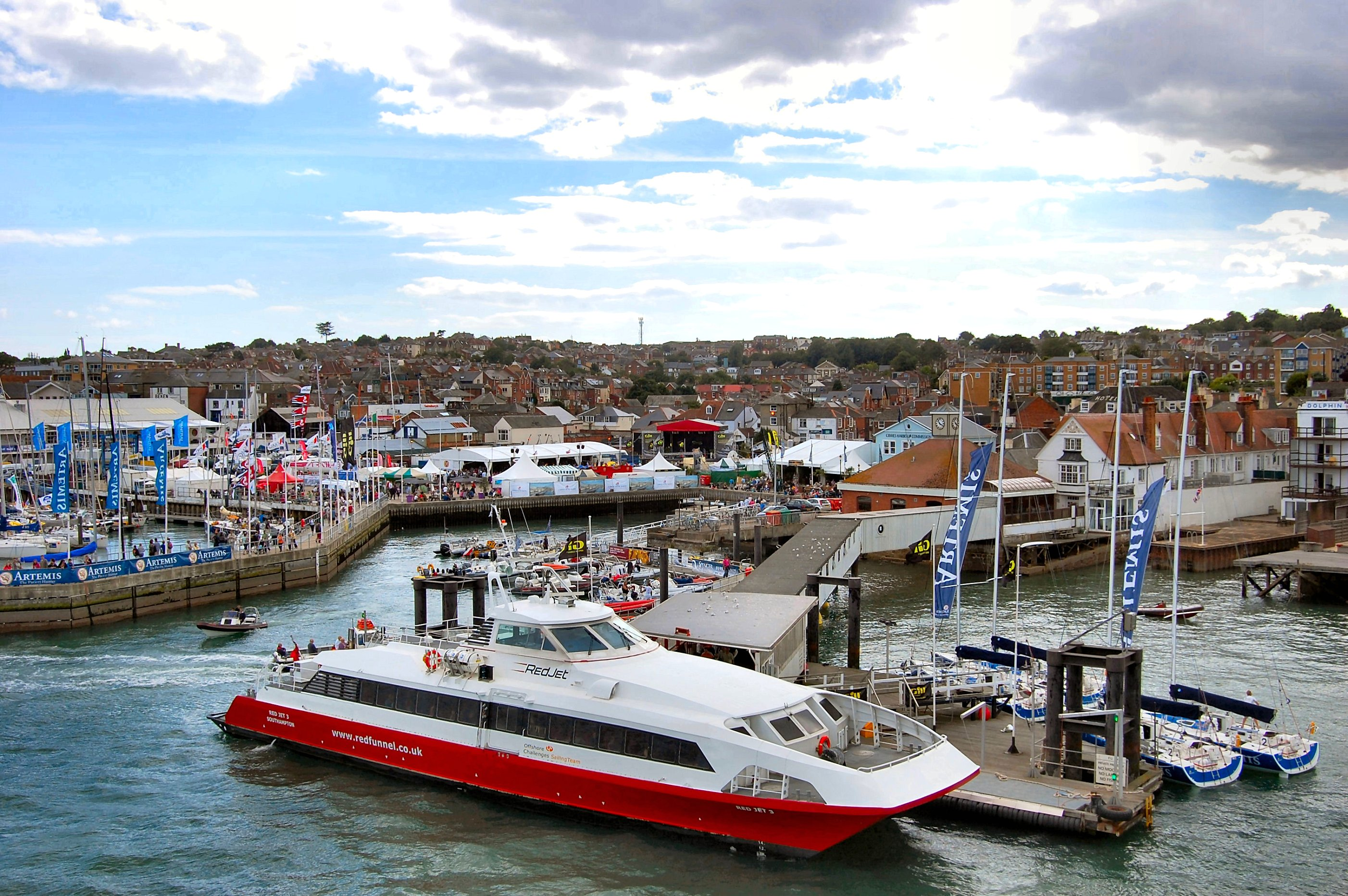 The view over Cowes, Isle of Wight, during Cowes Week 2010. Red Funnel's Red Jet 4 can be seen docked up at the ferry terminal, with the stage and marquees set up at the Yacht Haven.